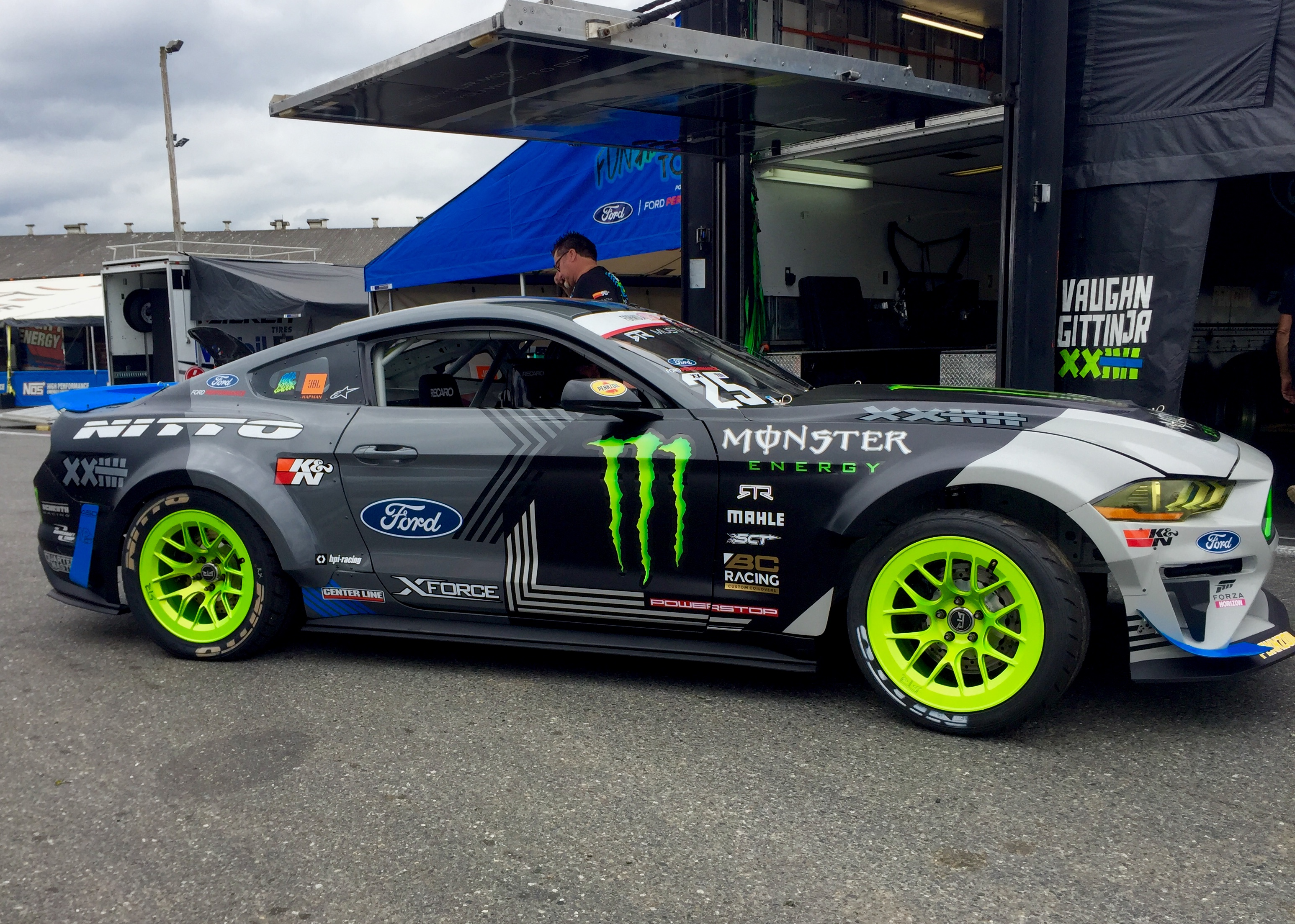 Vaughn Gittin Jr.'s Spec 5 (2018 Season)